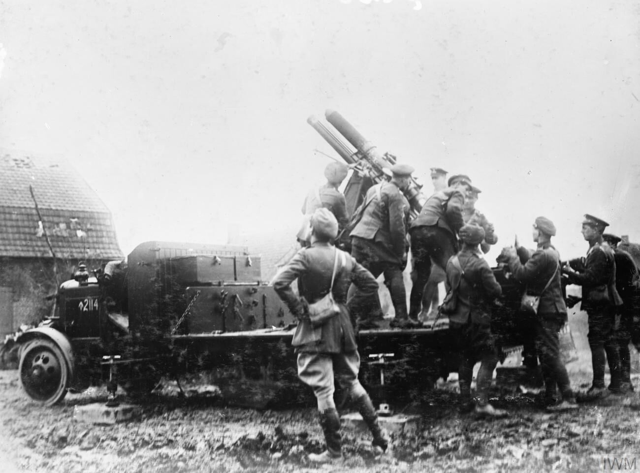 Photograph of British 13 pounder 6 cwt anti-aircraft gun on Mk II mounting, on a Thornycroft Type J lorry, 1916, outskirts of Armentieres, France. See Image:QF 13pdr 6cwt AA Gun Field Artillery Journal Jan-Mar 1917.jpeg for view from the other side.